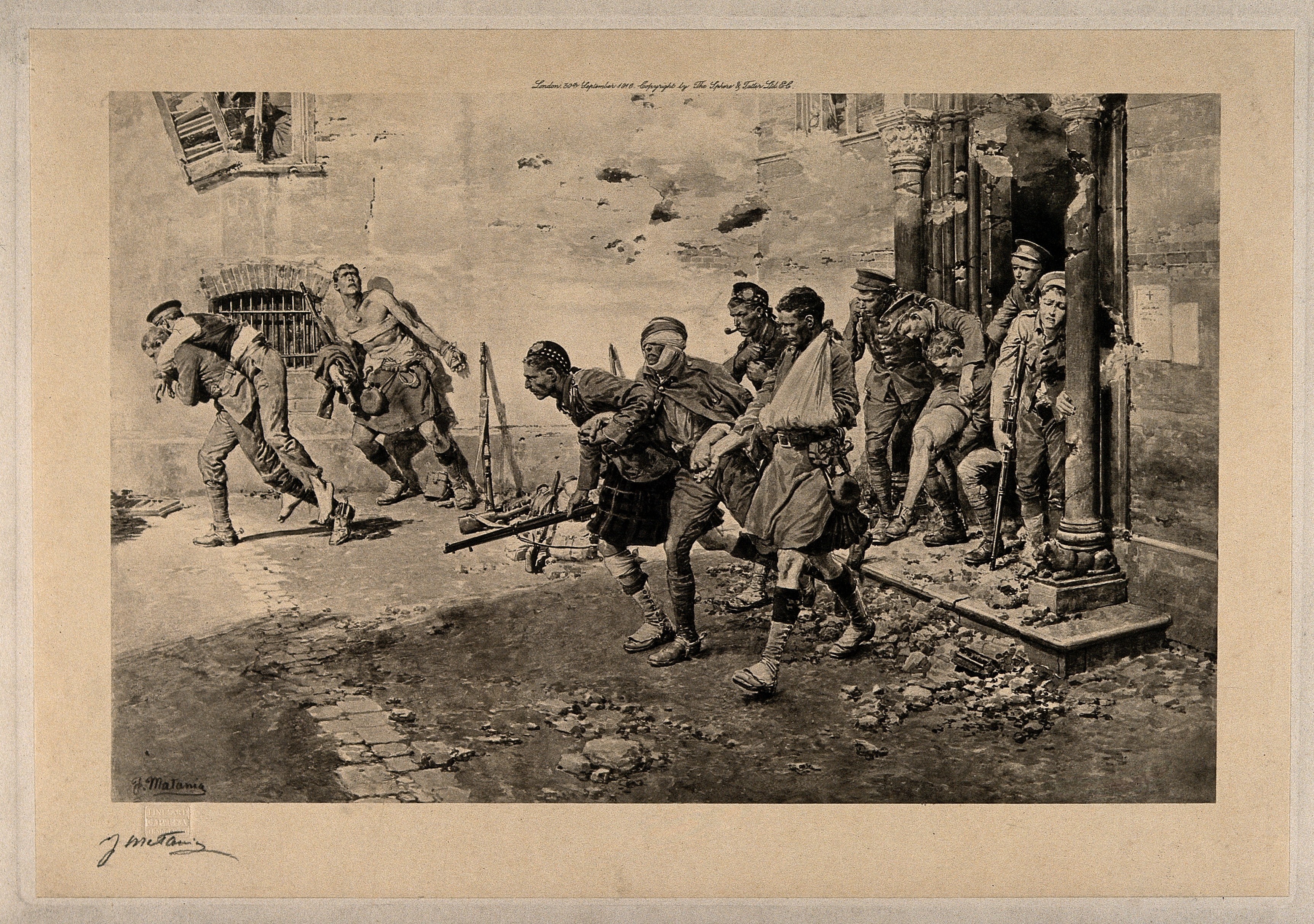 World War One: soldiers escorting wounded men from a war damaged building. Photogravure, 1916, after F. Matania. Iconographic Collections Keywords: Fortunino Matania